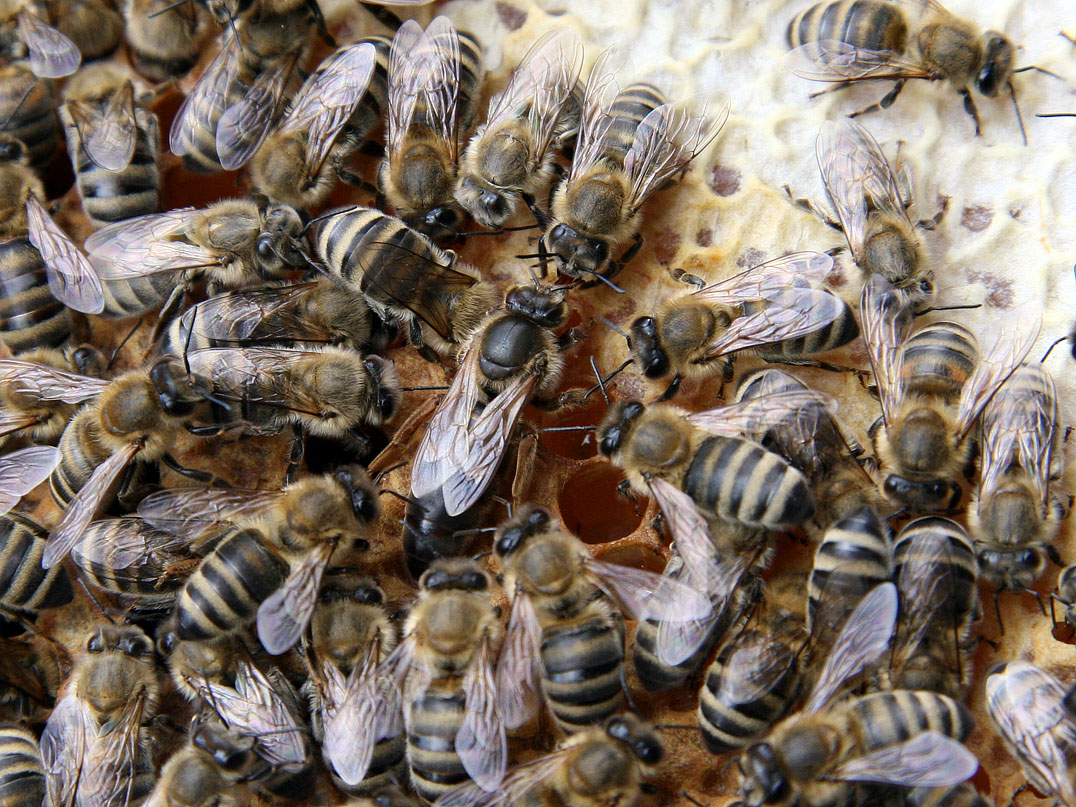 Queen bee with attendants on a honeycomb